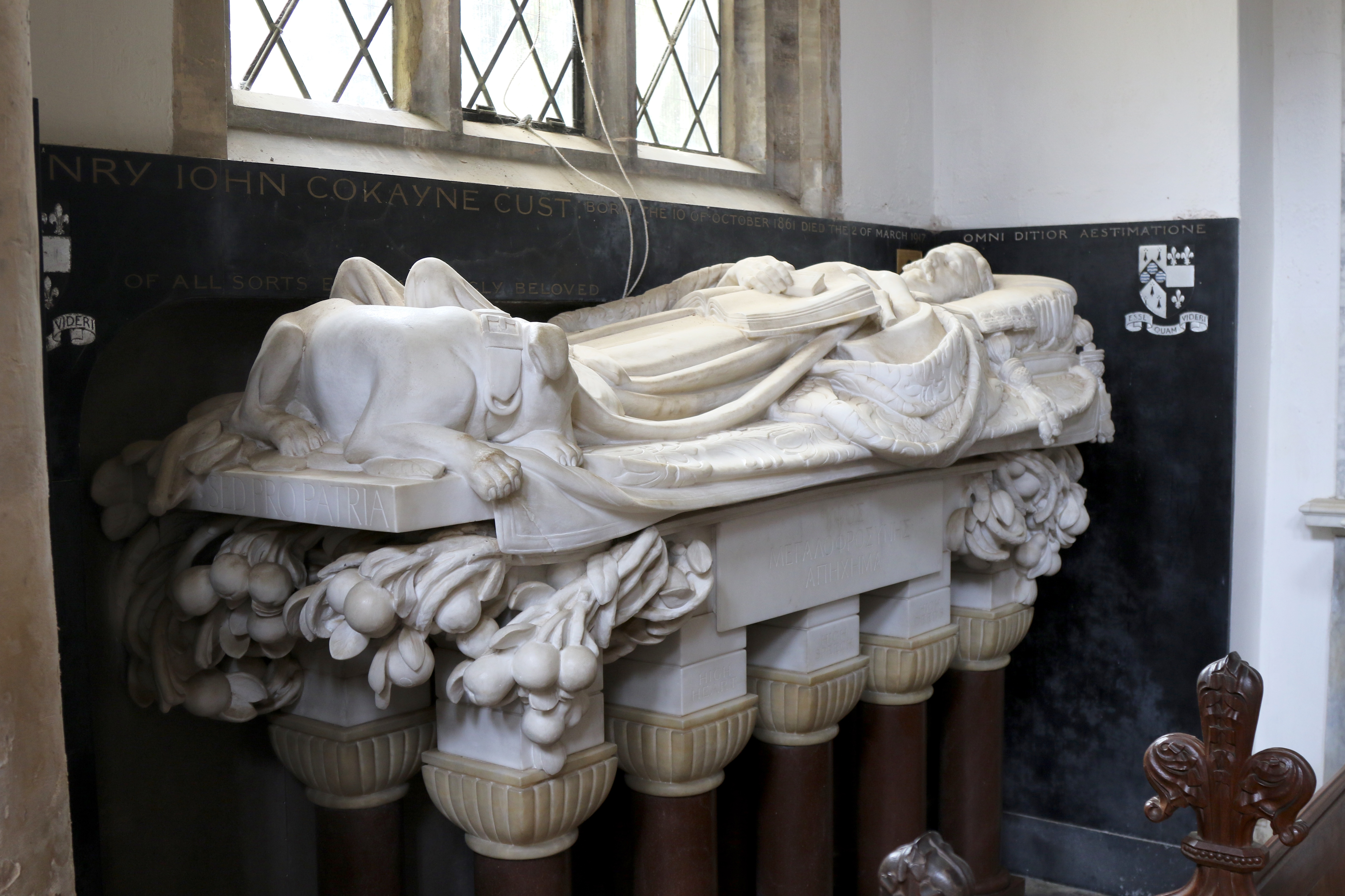 Henry John Cockayne Cust, died 1917. Tomb carved by his widow, Nina (Emmeline Mary Elizabeth Welby-Gregory (1867-1955), a daughter of Sir William Welby-Gregory, 4th Baronet). Inscription: "Of all sorts enchantingly beloved, Full of noble device." Arms: Cust impaling Welby: Sable, a fess between three fleurs-de-Lys argent